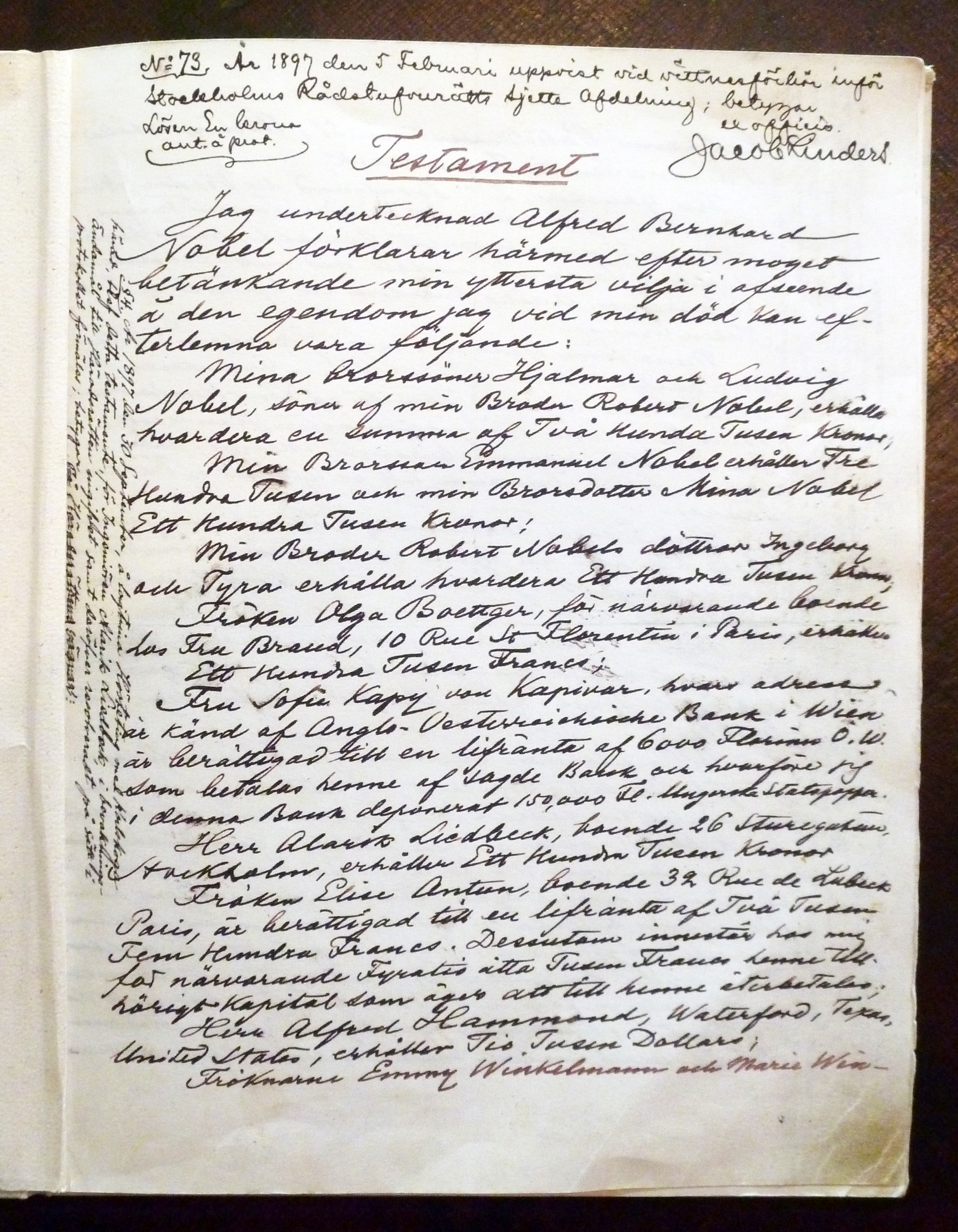 Alfred Nobel's will, 27 November 1895, page 1